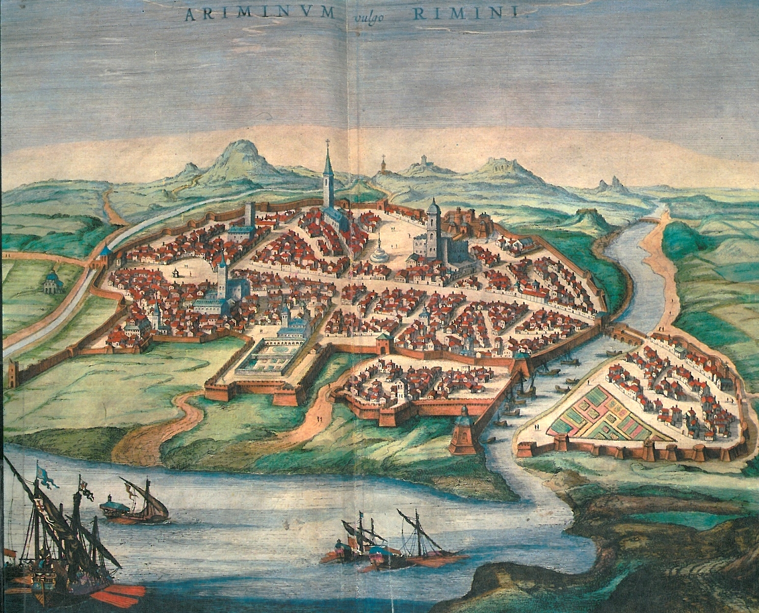 Rimini Italy engraving